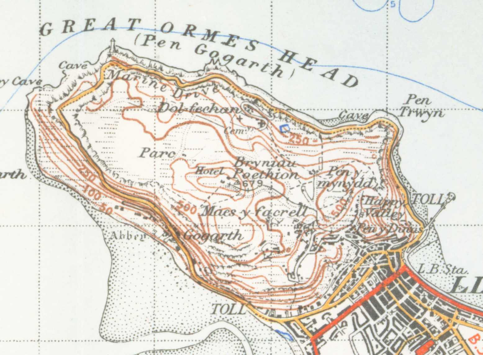 Map of Great ormes head from 1947. Scale 1 inch to the mile 600DPI Sheet 107 "Snowdon"